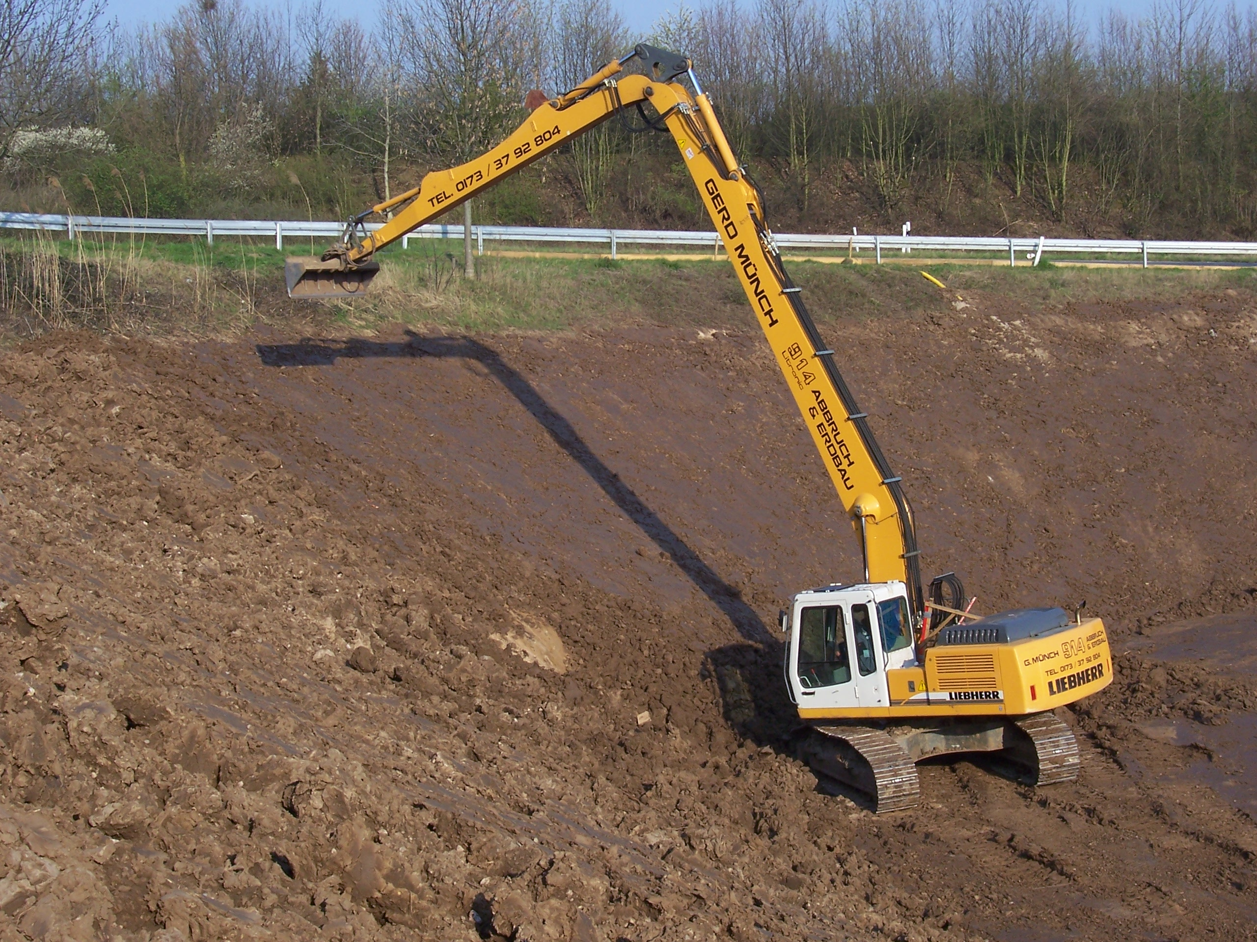 A Liebherr R 914 Litronic crawler excavatior with ditchcleaning attachment in Mannheim, Germany.